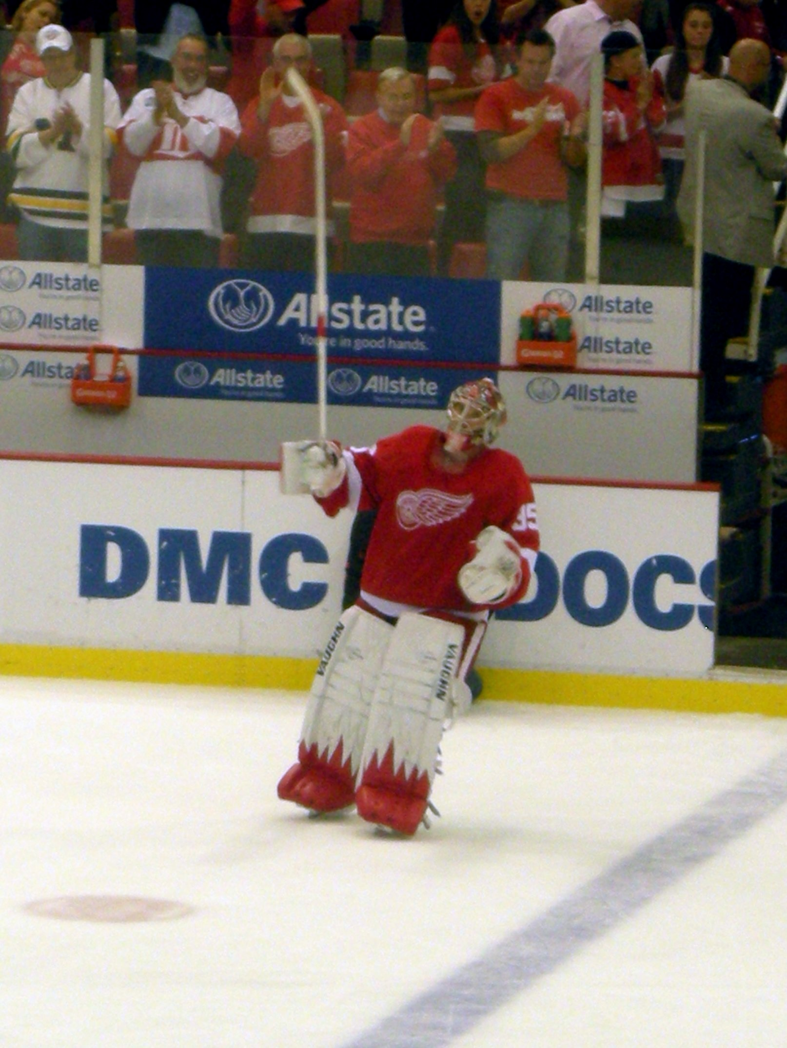 Jimmy Howard announced as the second star after the Anaheim Ducks vs. Detroit Red Wings ice hockey game at Joe Louis Arena in Detroit, Michigan (United States). Detroit won 4–0.